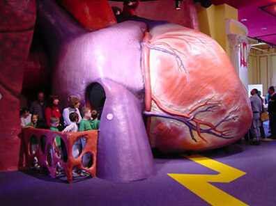 Giant Heart with kids